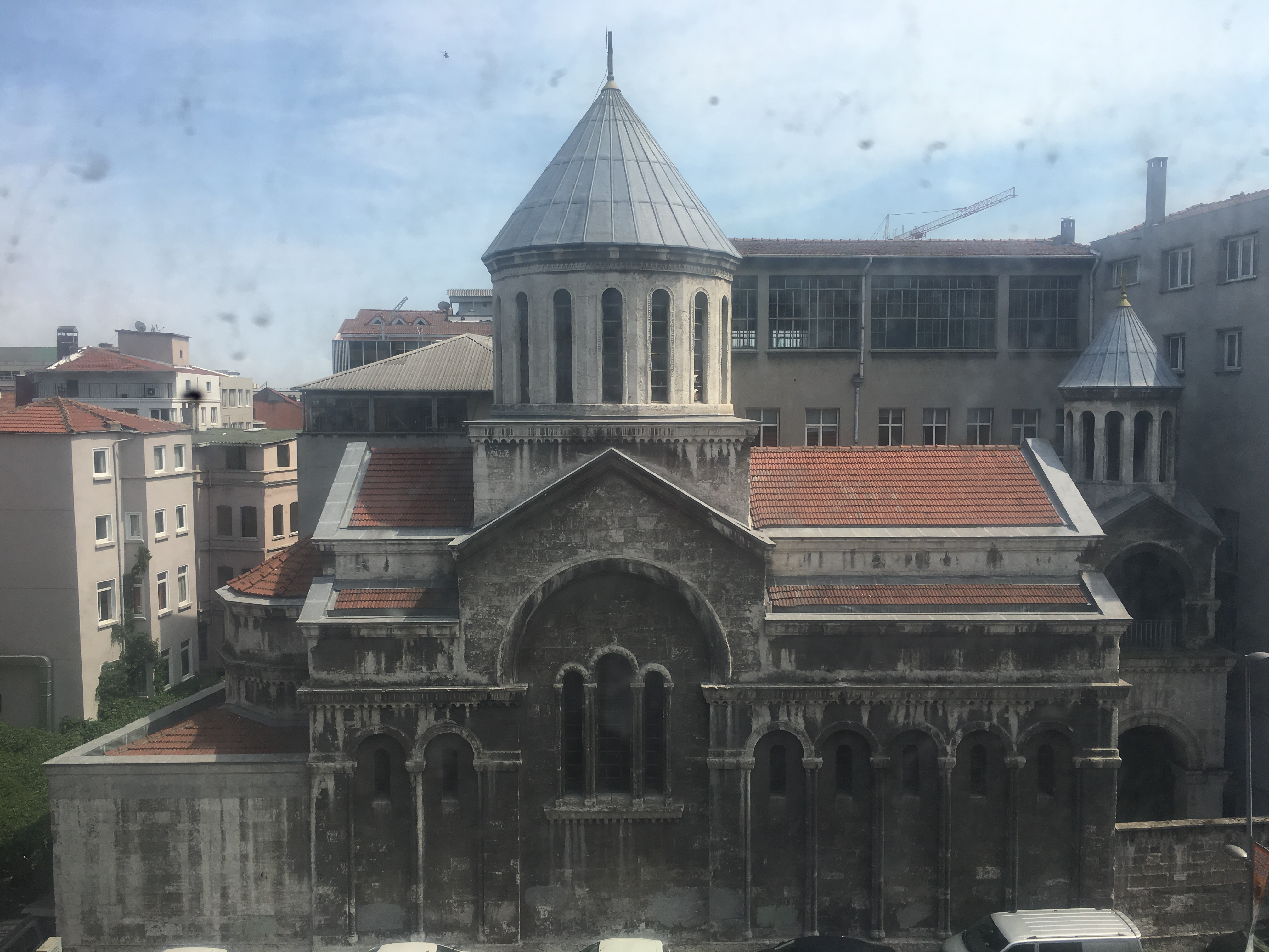 Surp Krikor Lusavoric Church in Karaköy, İstanbul